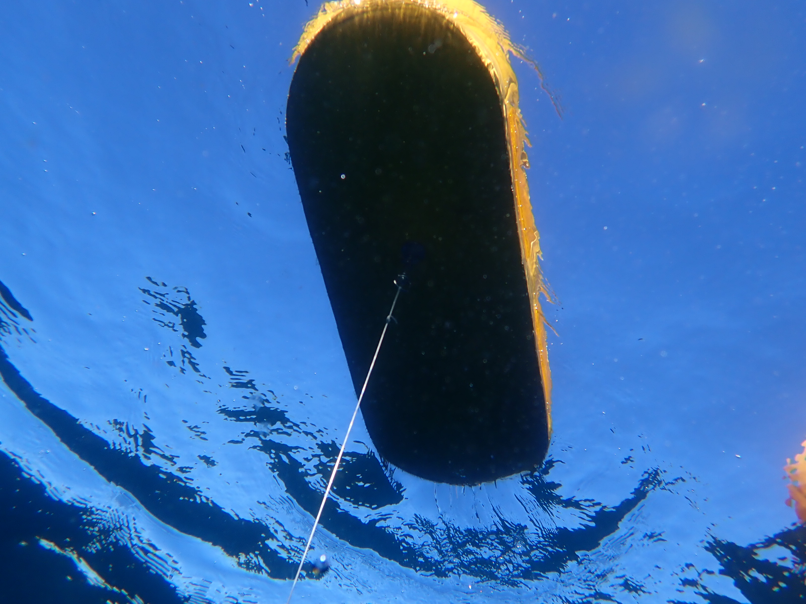 Surface marker buoy indicating the underwater position of a scuba diver. This buoy is yellow for visibility, and shaped to reduce drag when towed by the diver. The thin line is strong but low-drag